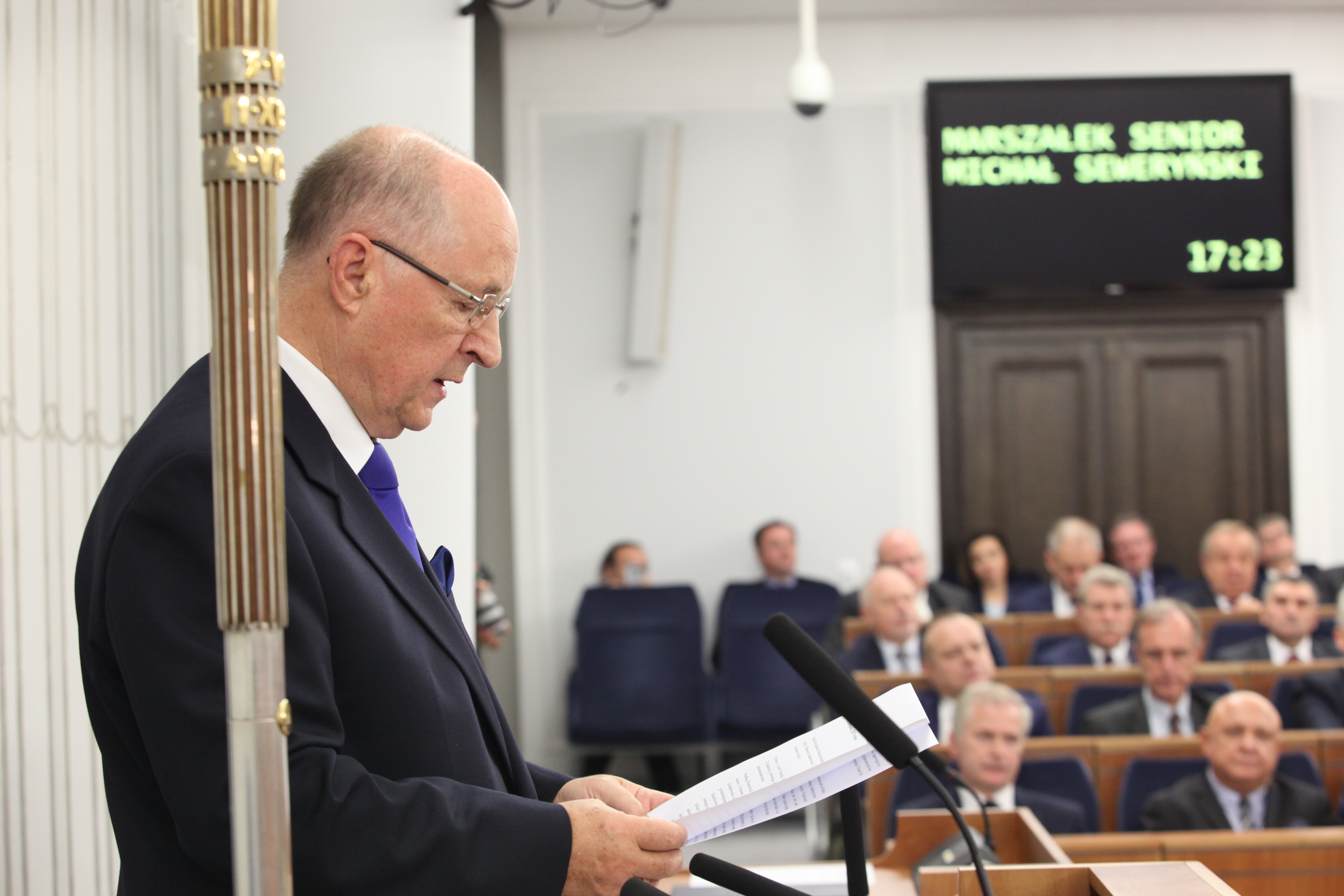 Marshal-senior Michał Seweryński. 1st sitting the Polish Senate of the 9th term